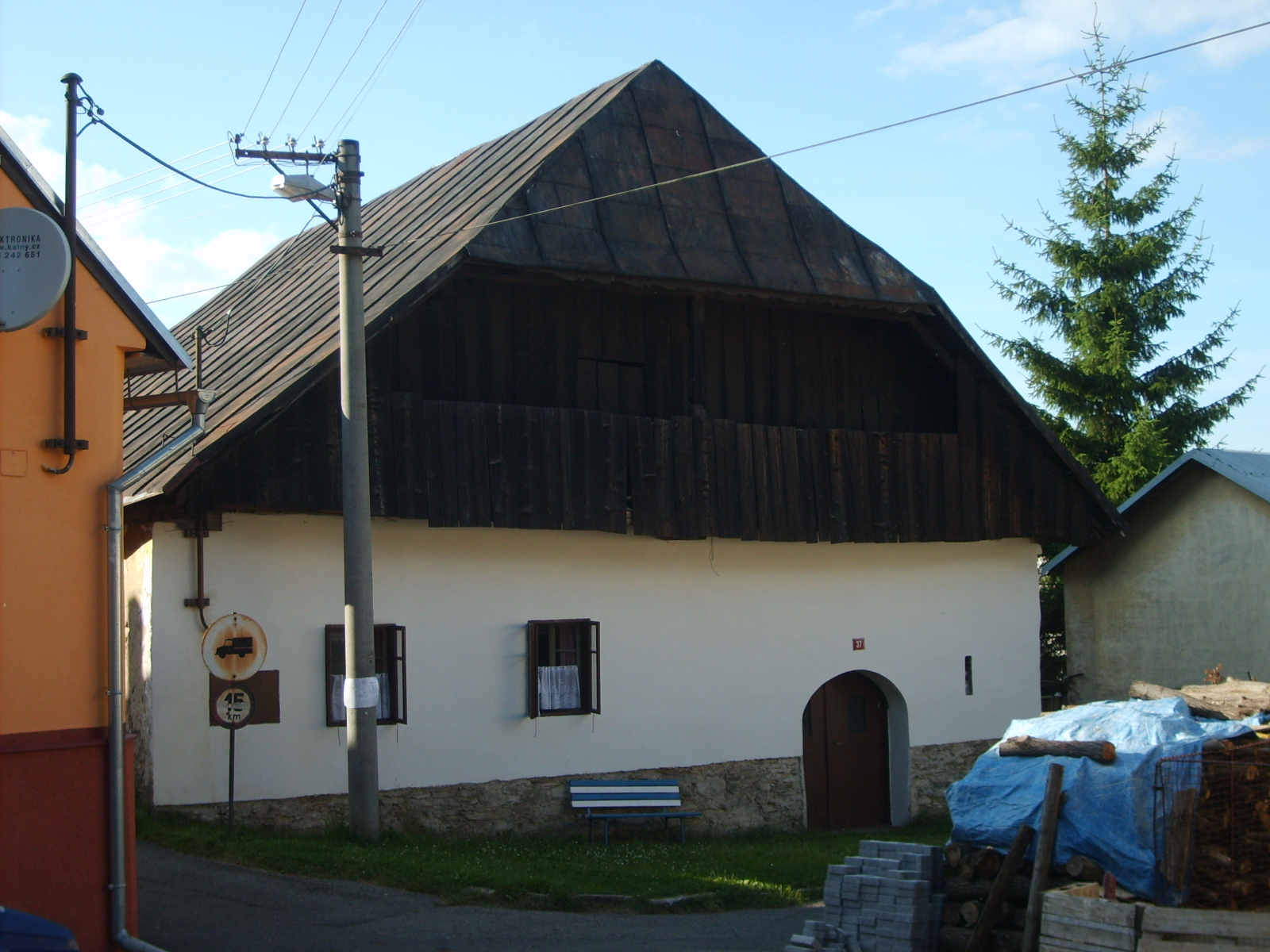 Bohemian Forest typical building in Hartmanice.